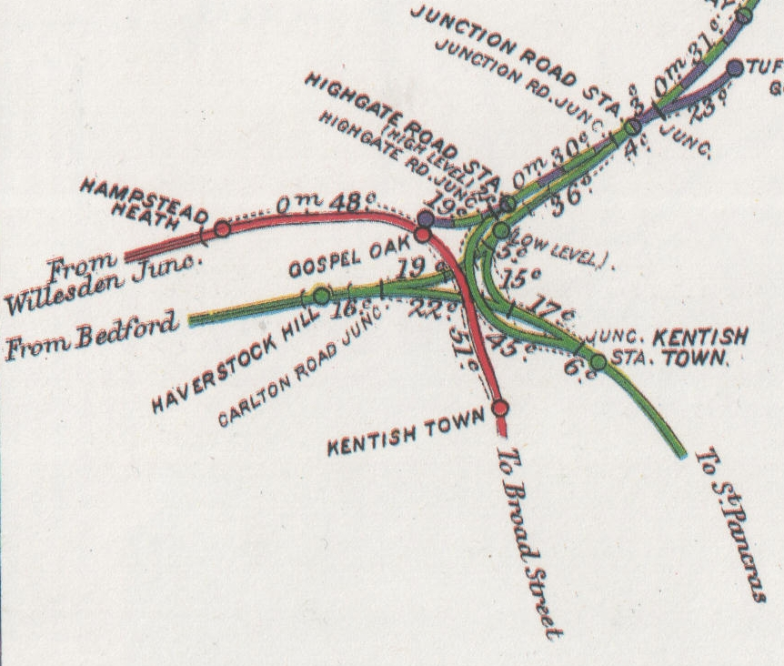 Pre Grouping railway junction diagram of area around Highgate Road, Haverstock Hill, Gospel Oak and Kentish Town railway stations in north London.